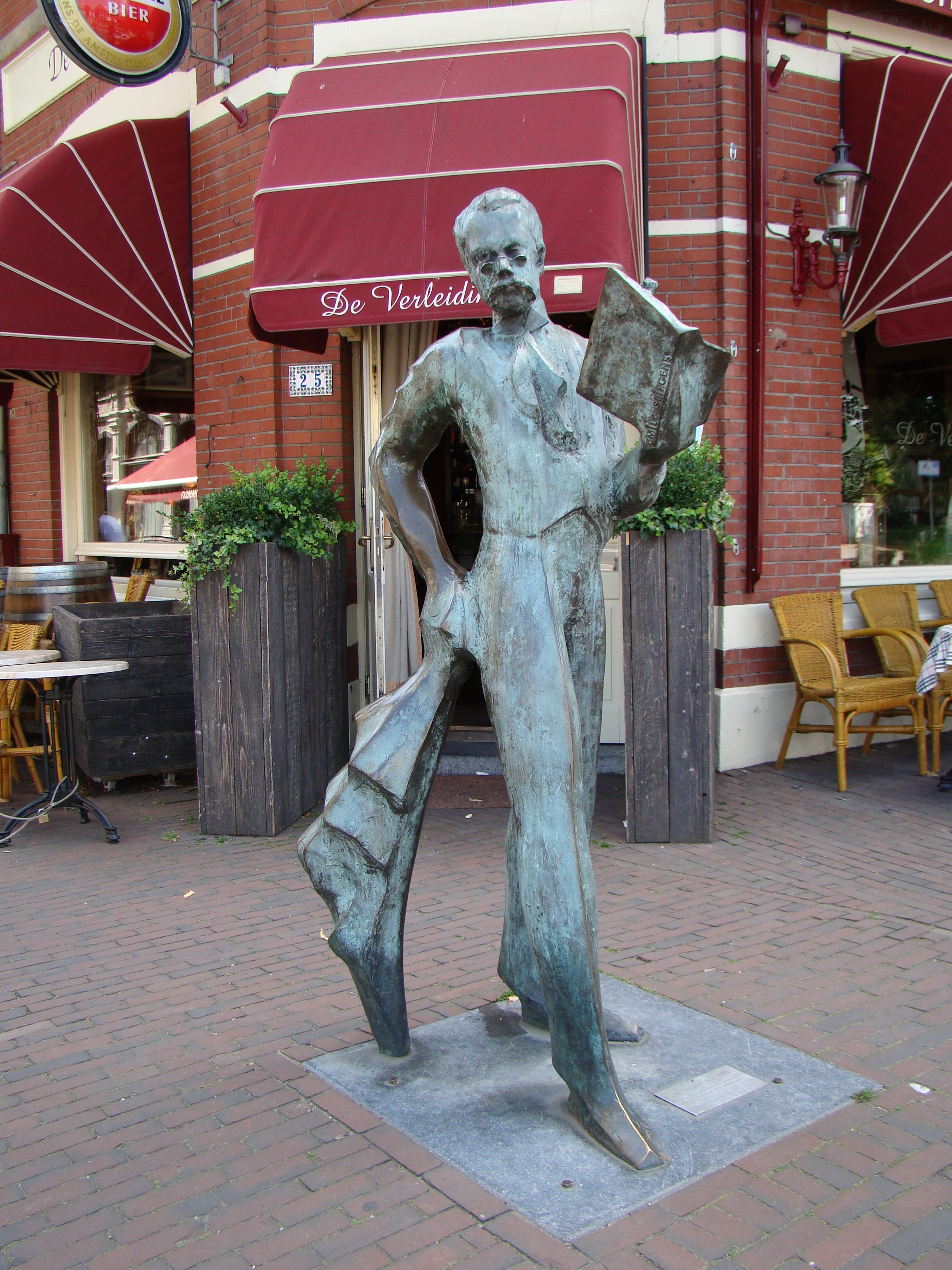 Artwork Emile Seipgens by Wijnand Thönissen and Dick van Wijk in Roermond (Netherlands)